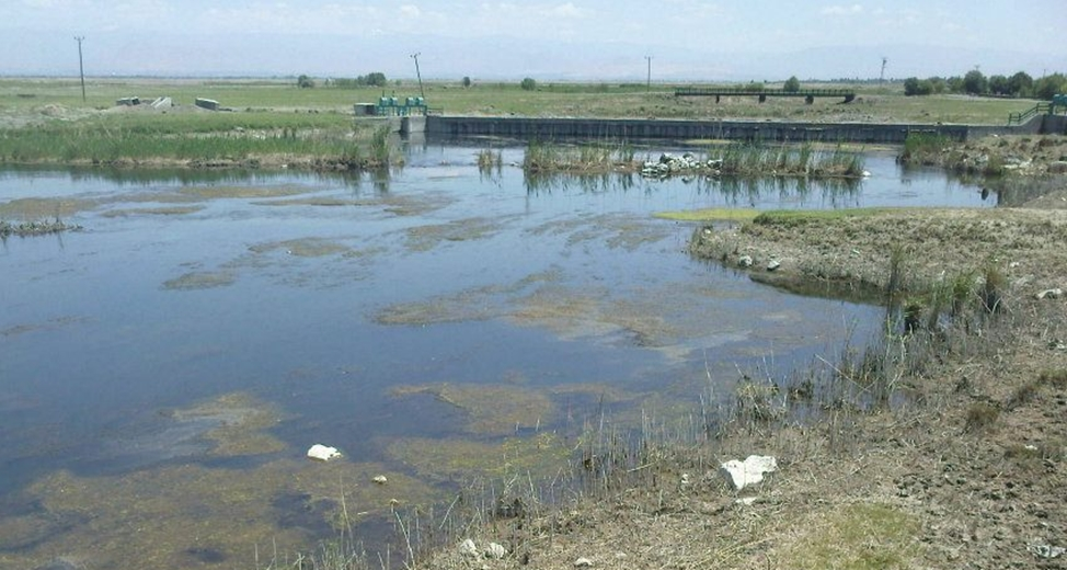 IĞDIR TAZEKÖY